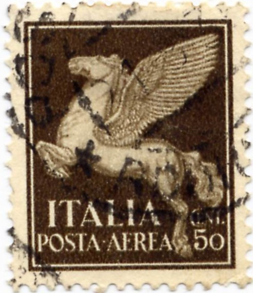 Airmail stamp of Kingdom of Italy 1930